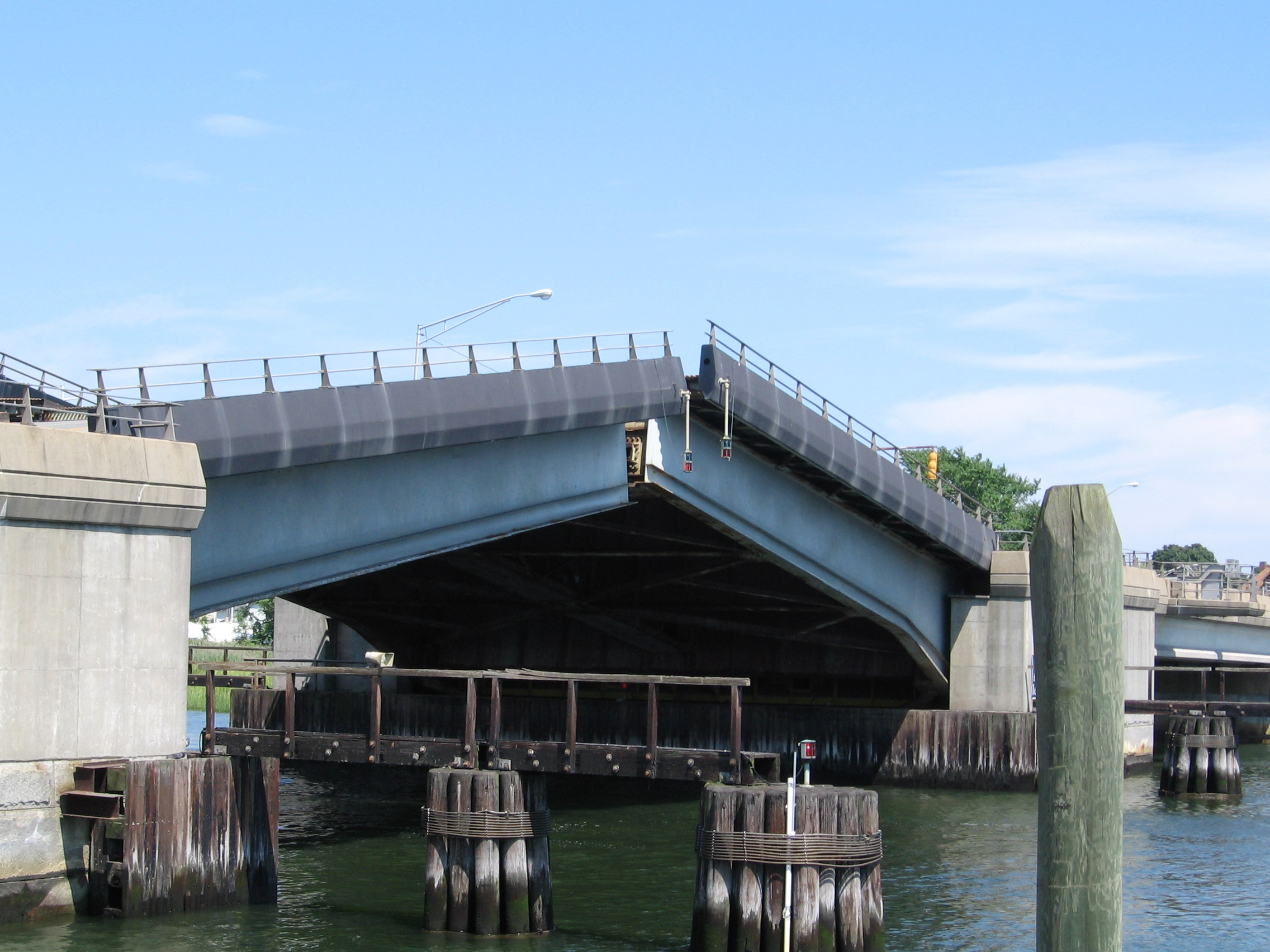 Stroffolino Bridge, which connects South Norwalk with East Norwalk in Norwalk, Connecticut over the Norwalk River. The bridge opens up for some tour boats and a small number of other boats. The view is from the south on the South Norwalk side of the bridge.